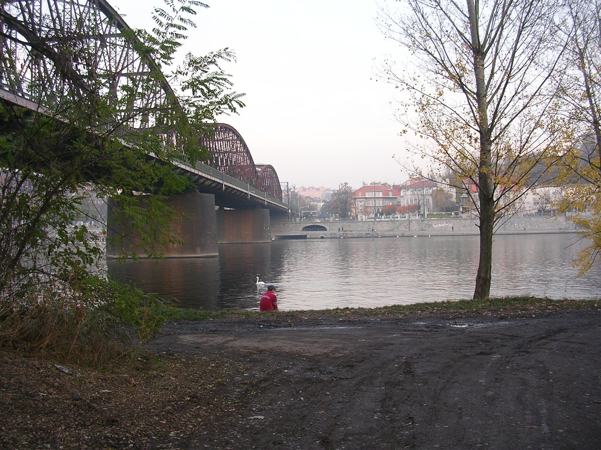 Vyšehrad, Prague.